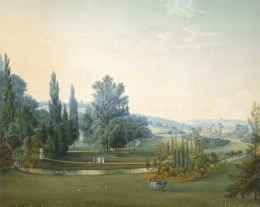 France, Gardens of Malmaison Near Paris